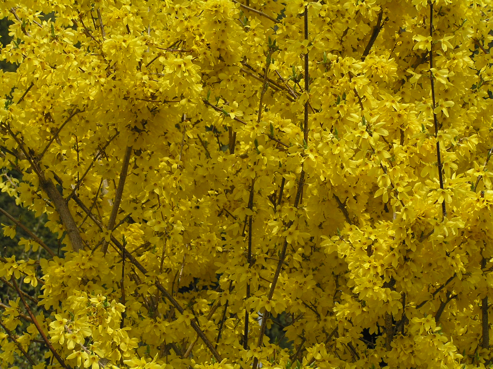 Forsythia suspensa 4090392